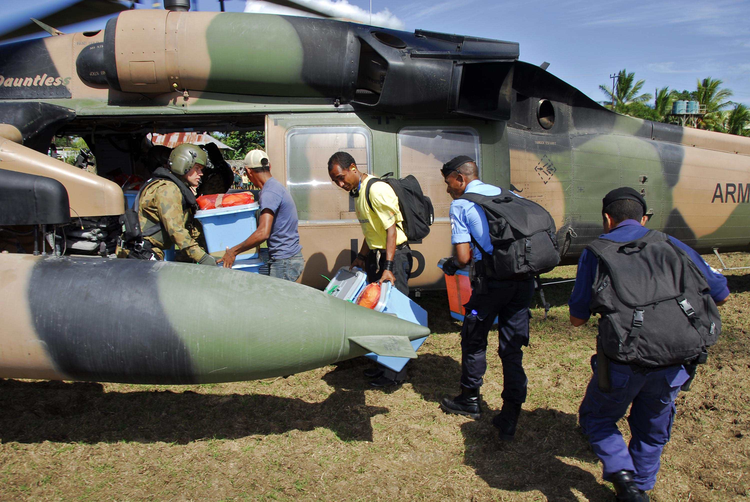 Timor: ISF helicopter being loaded with election ballots 'Loadmaster Trooper Darren Magor helps members of the Government of Timor Leste and United Nations election officials load a Black Hawk helicopter with vital ballots destined for some of the country’s most isolated polling stations in the eastern province of Lautem' (May 2007) [Defence].